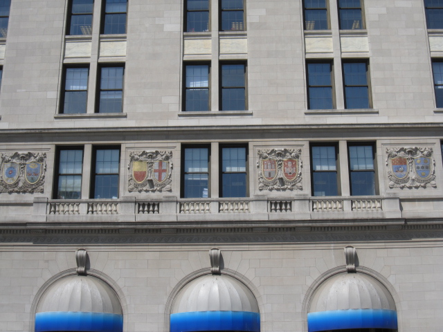 1 Broadway